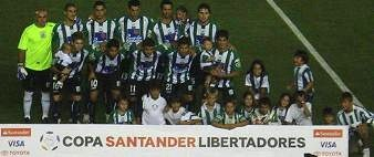 Racing Club de Montevideo, Sayago team, wins 2-0 Junior Barranquilla in Central Park and classifies the group stage of the Copa Santander Libertadores de America 2010 edition.